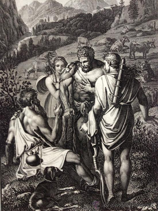 Cragaleus (1837) by Austrian artist Franz Xaver Stöber (1795-1858)